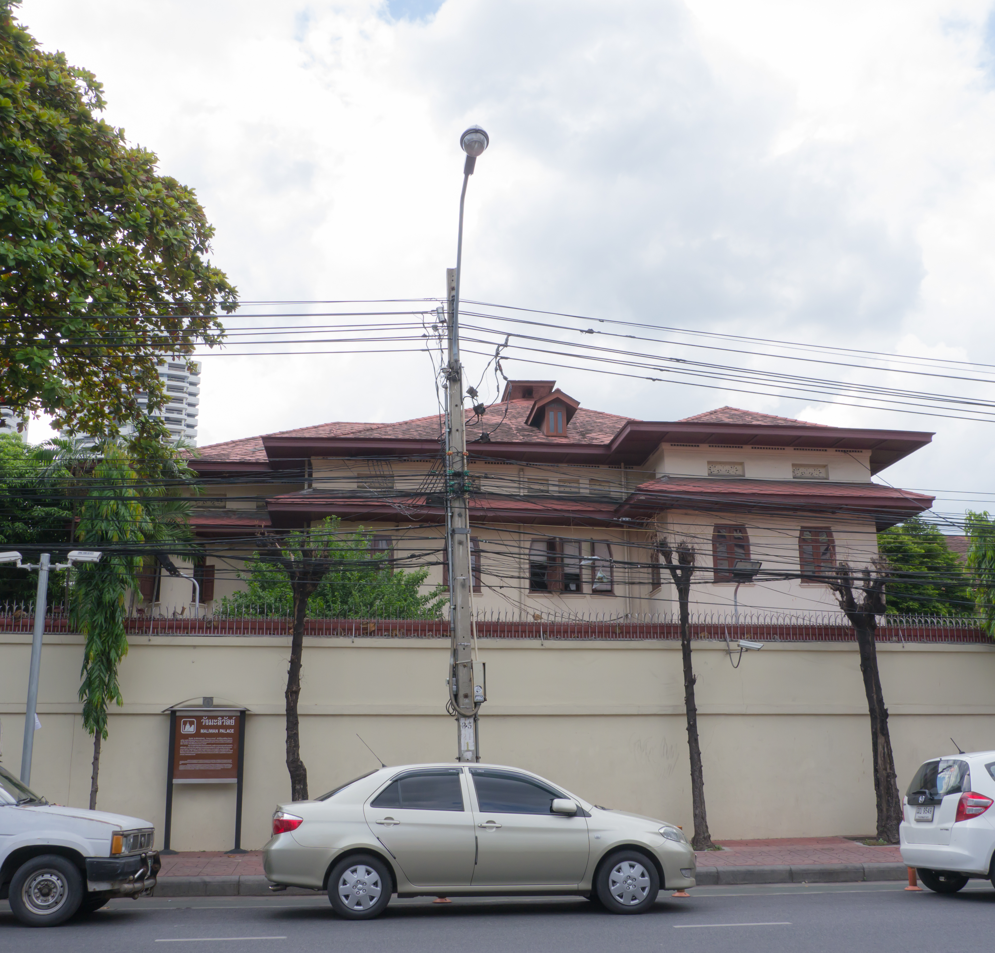 Maliwan Palace (the Palace of H.R.H. Prince Nares Varariddhi), Chana Songkhram, Phra Nakhon, Bangkok